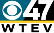 Station logo for WTEV-TV